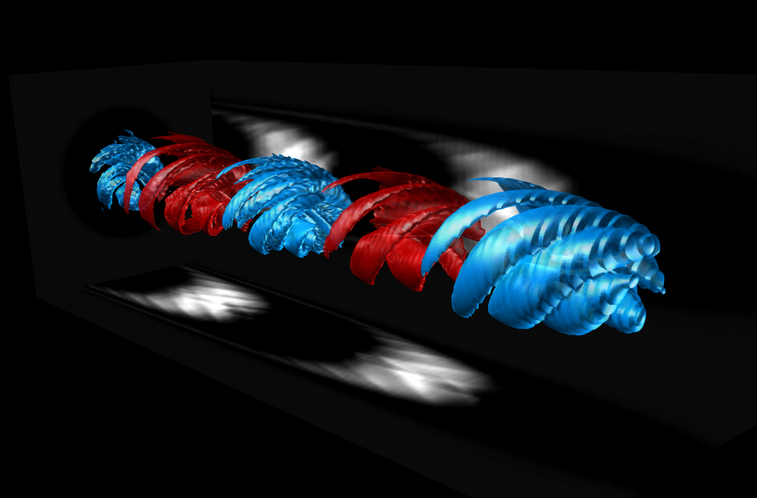 Amplification of a laser with orbital angular momentum via Stimulated Raman Backscattering in plasmas. The complex spiralling structures indicate the generation of high orbital angular momentum harmonics.